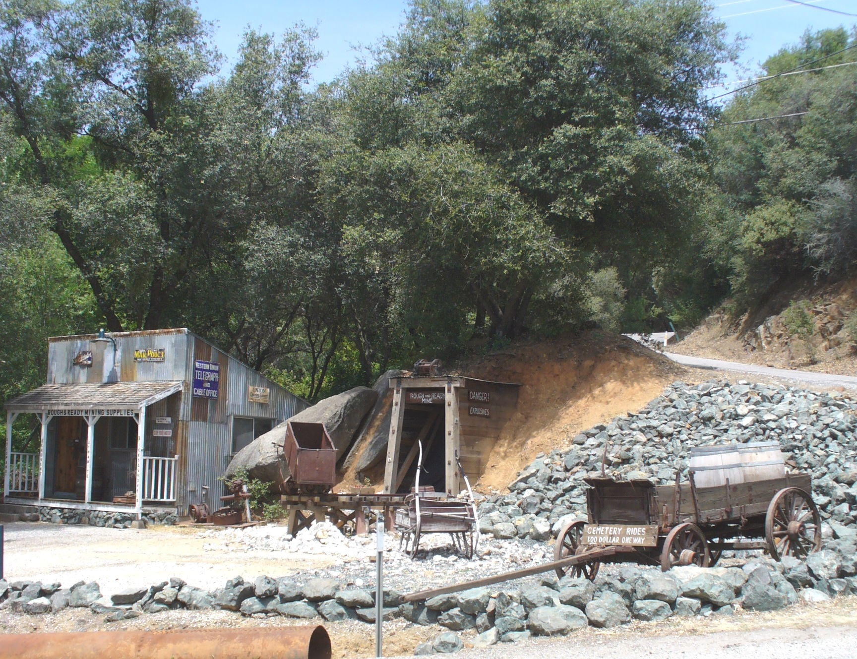 Rough and Ready, California